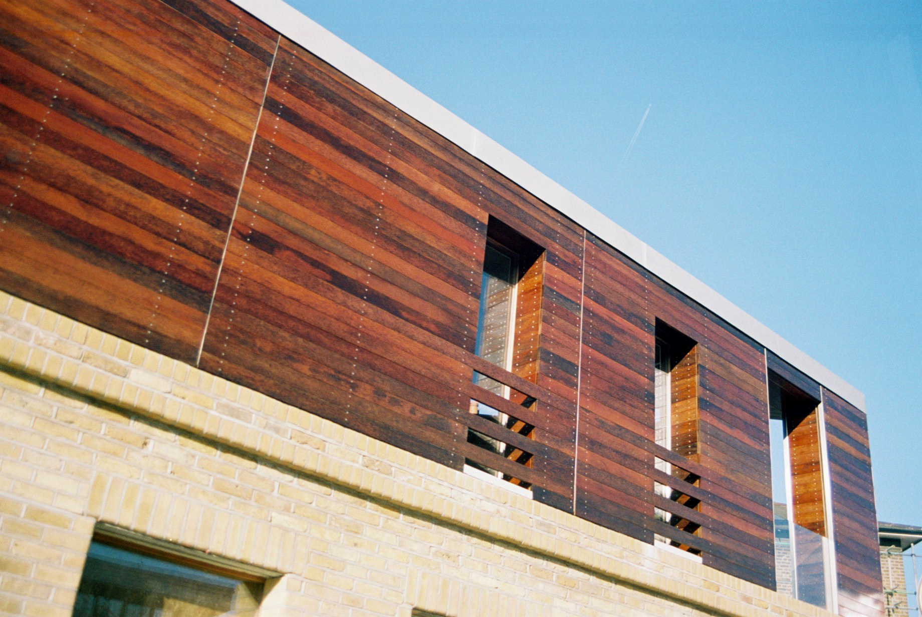 Took it myself on 6 Oct 2006 in Battersea, London.